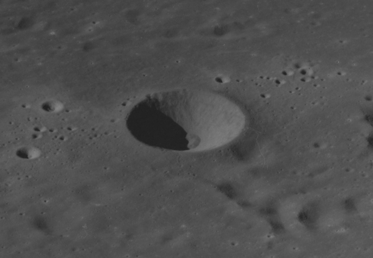 Oblique view of Al-Marrakushi crater, on the moon, facing south. The clusters of small craters to the left and right are secondary craters from Langrenus crater.